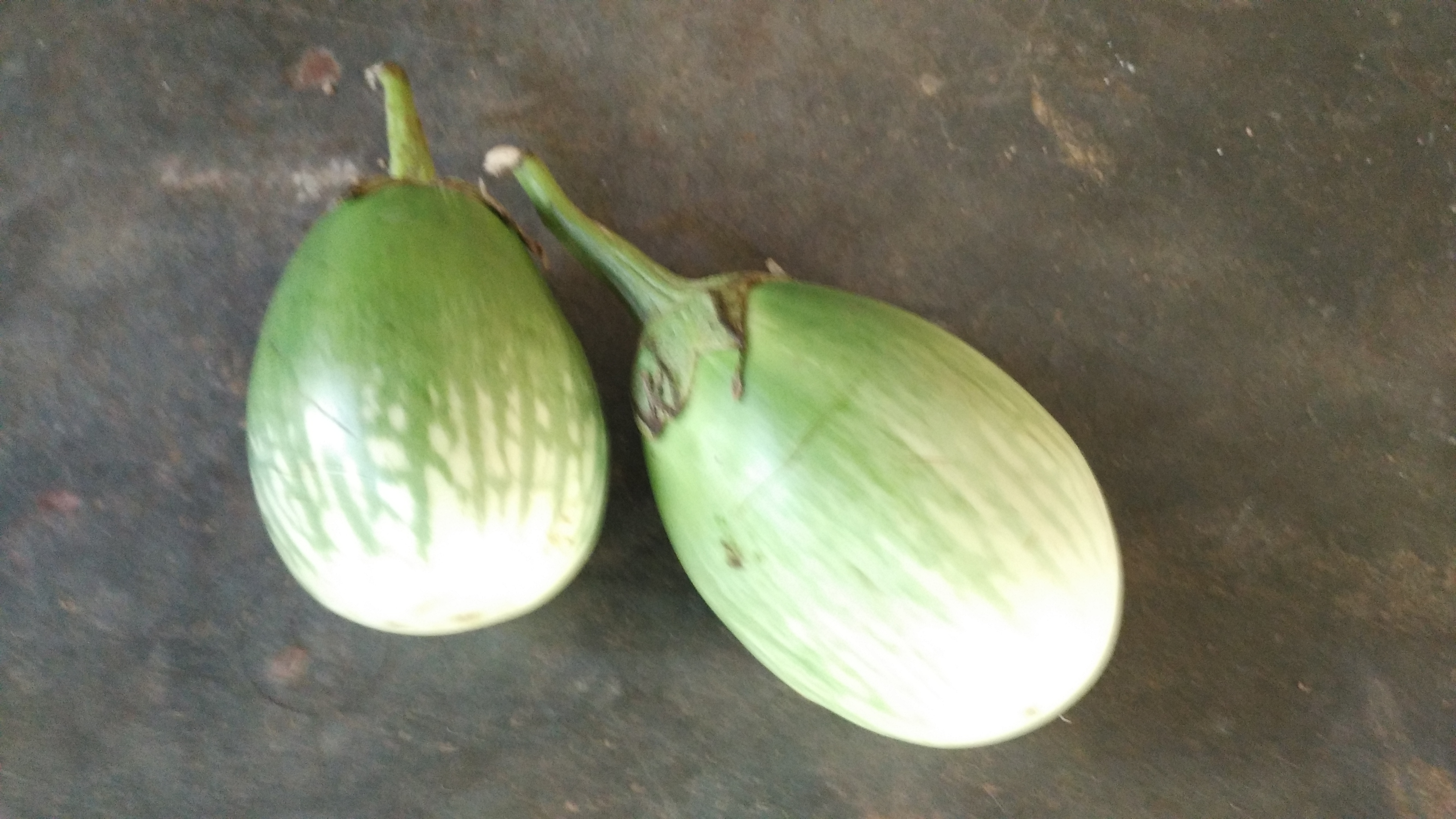 A special variety of Brinjal (Eggplant) called 'Udupi Gulla' grown in 'Udupi' region of Karnataka state, India.